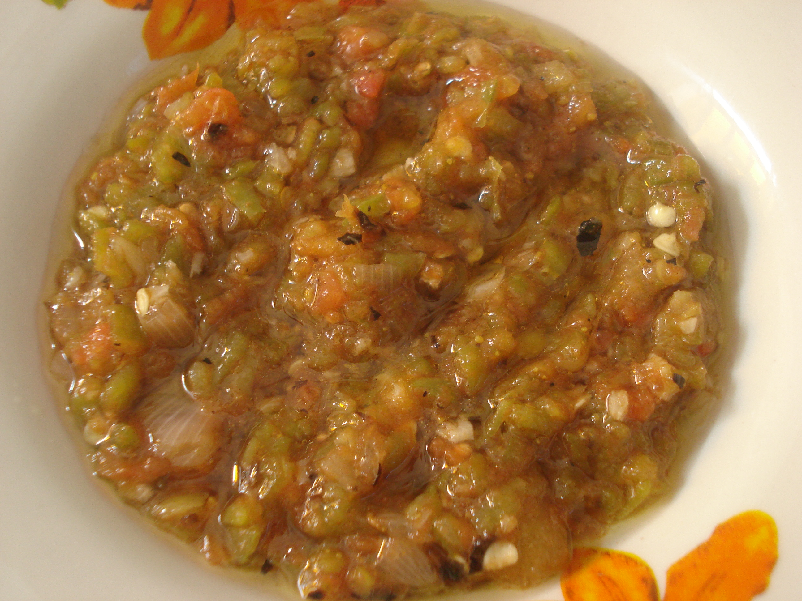 This is an image of food from Tunisia